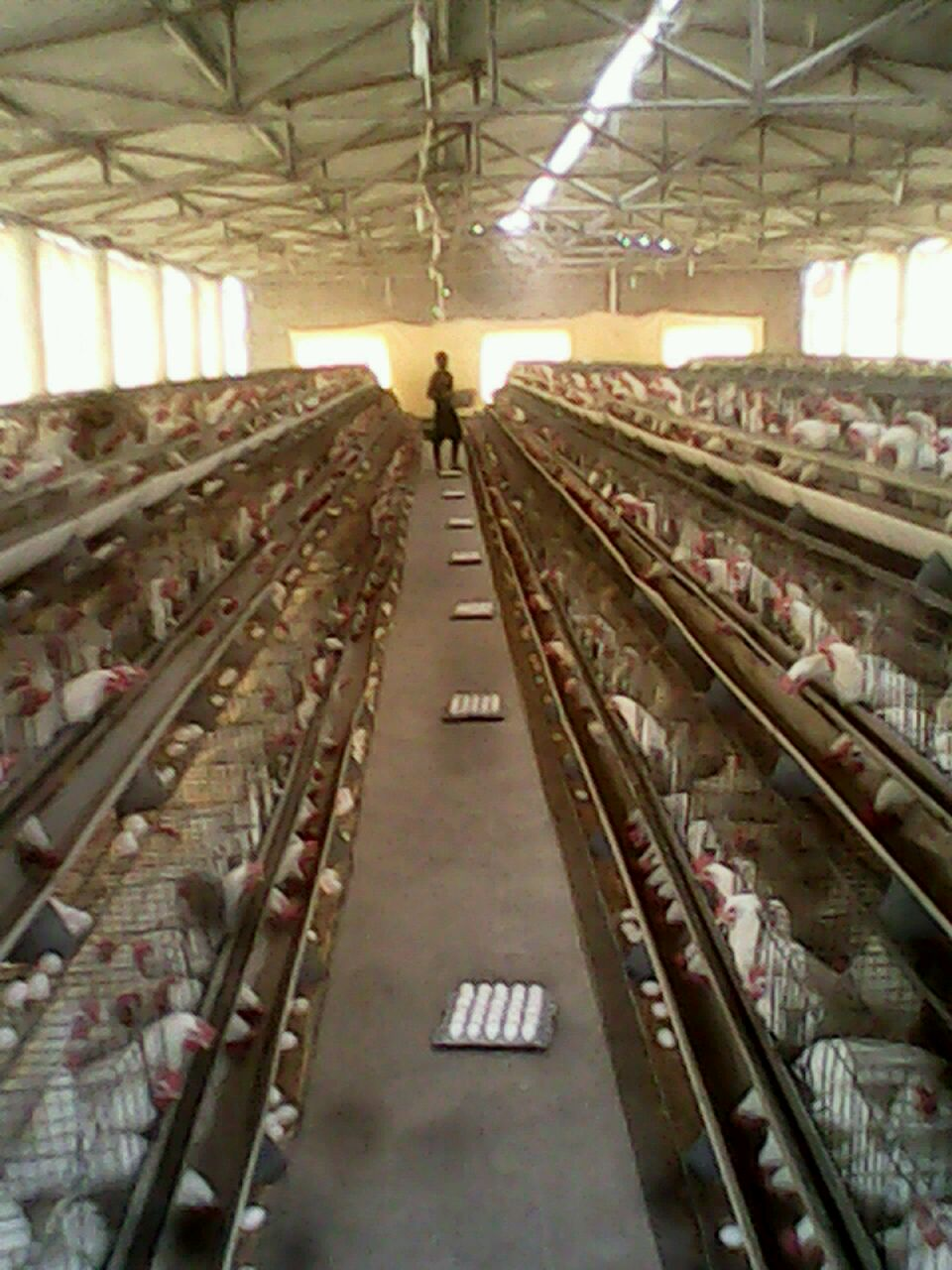 this is for using on the bird page